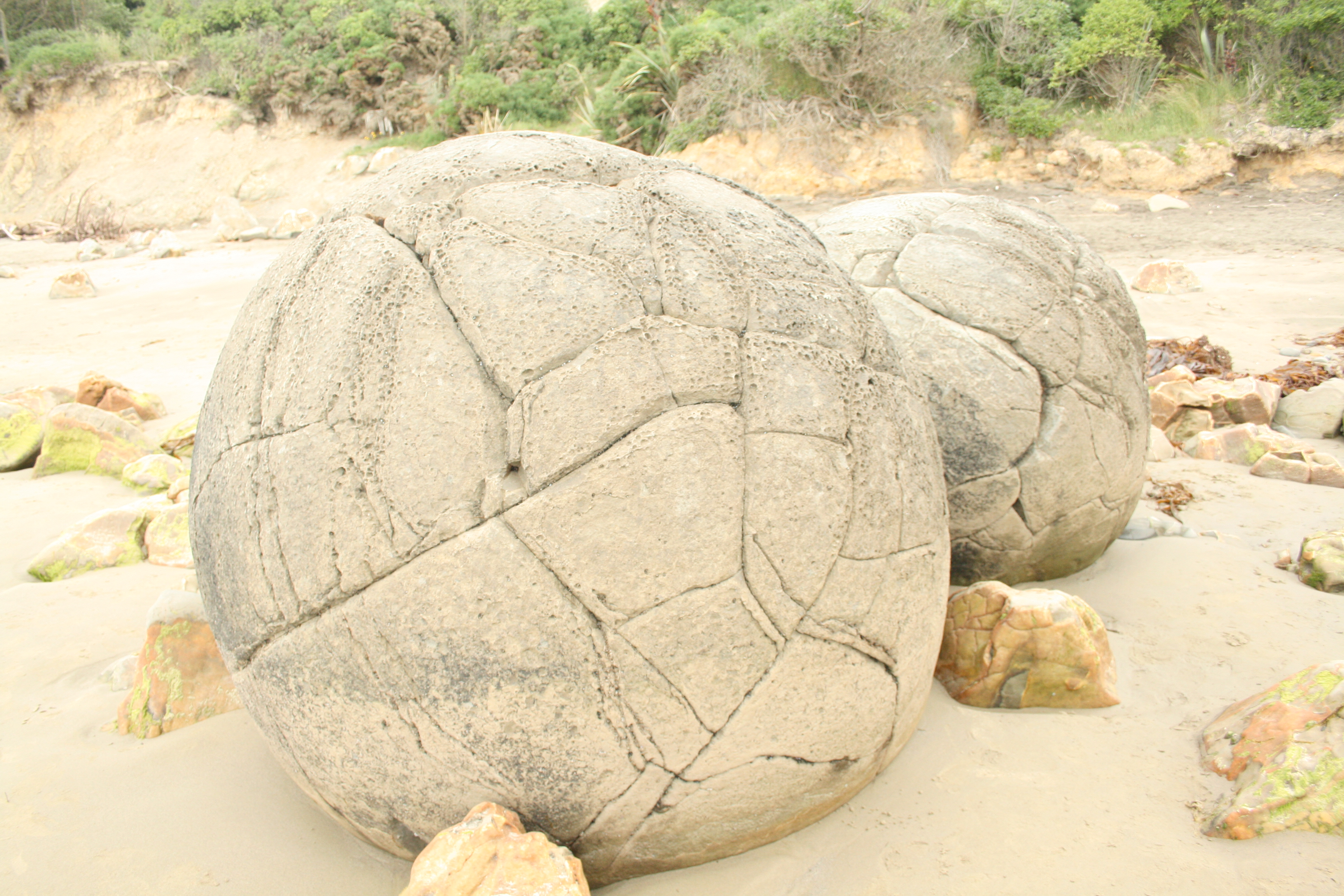 Moeraki Boulders, New Zealand